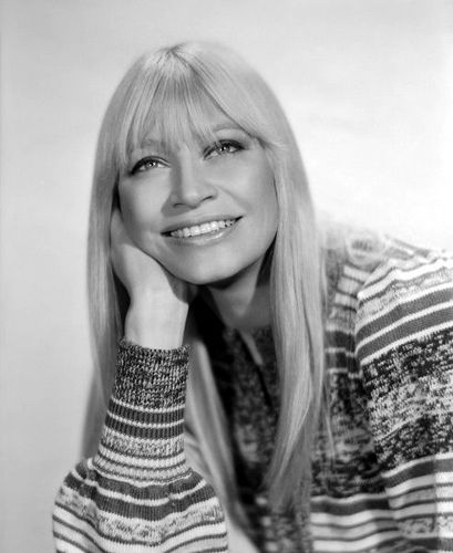 Singer Mary Travers poses for a publicity portrait around 1977. Photo published without copyright symbol or notice.